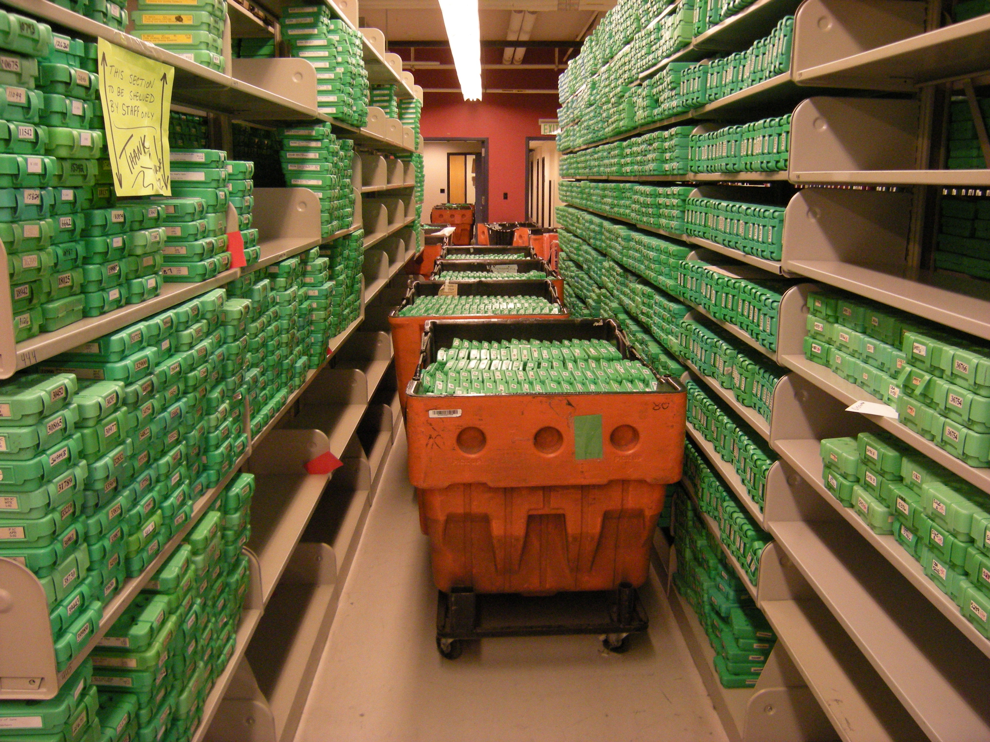 Closed stacks for "talking books" (books on cassette), Washington Talking Book & Braille Library, 2021 Ninth Avenue, Seattle, Washington, USA.